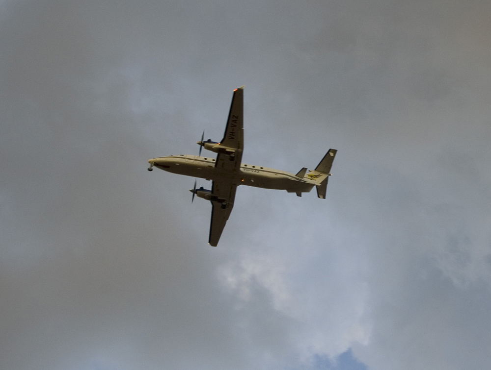 Vincent Aviation coming into land. Darwin, Northern Territory